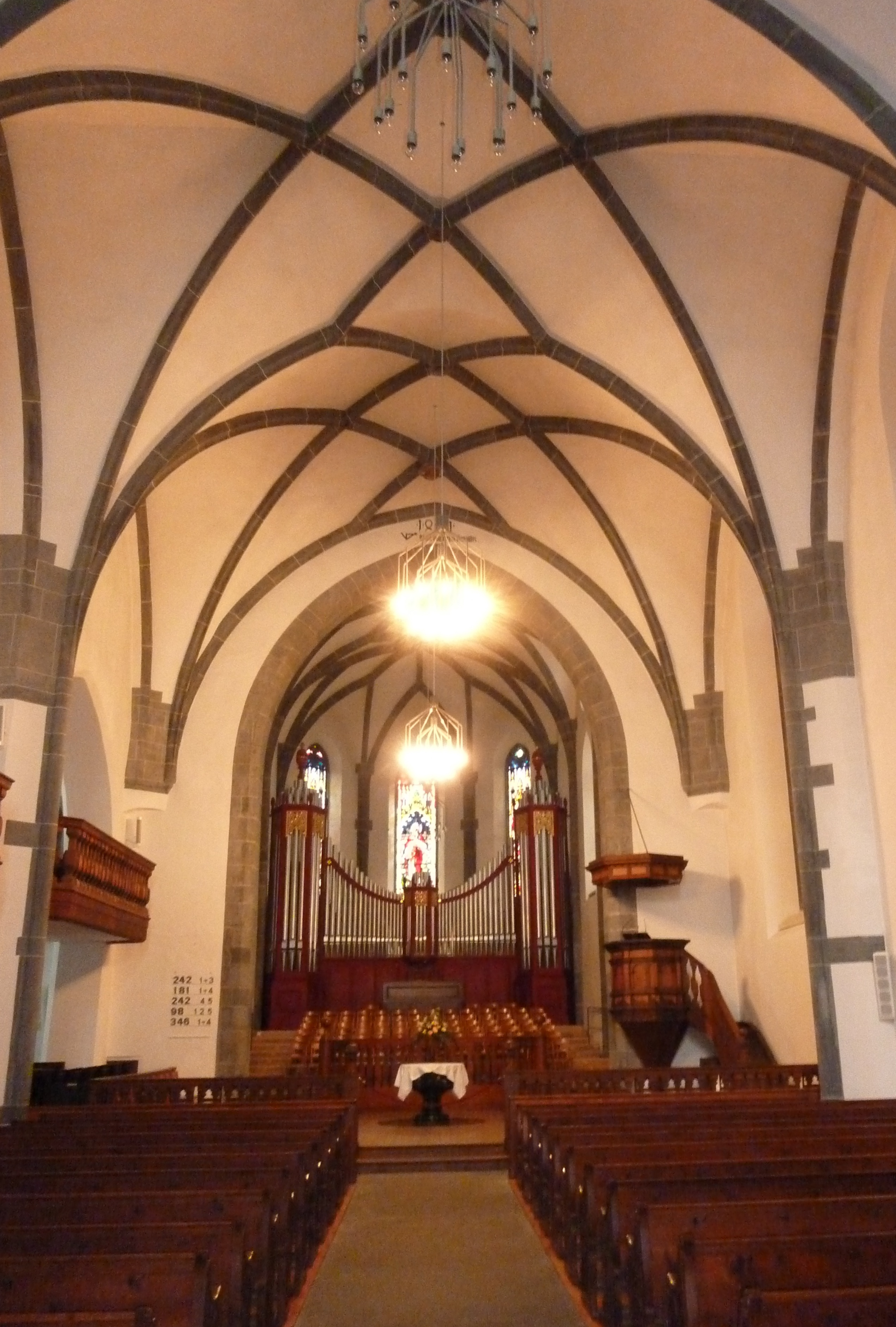 St. Martin Chur